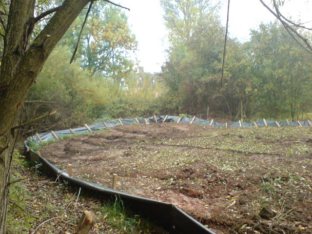 Collecting Crested Newts beside Trotshill Manor. The whole perimeter of this small site for new houses was fitted with this plastic fence. Apparently a condition of the redevelopment was that these rare newts were collected and relocated. To this end a bucket was sunk to ground level every few yards around the whole site and inspected every day for newts.